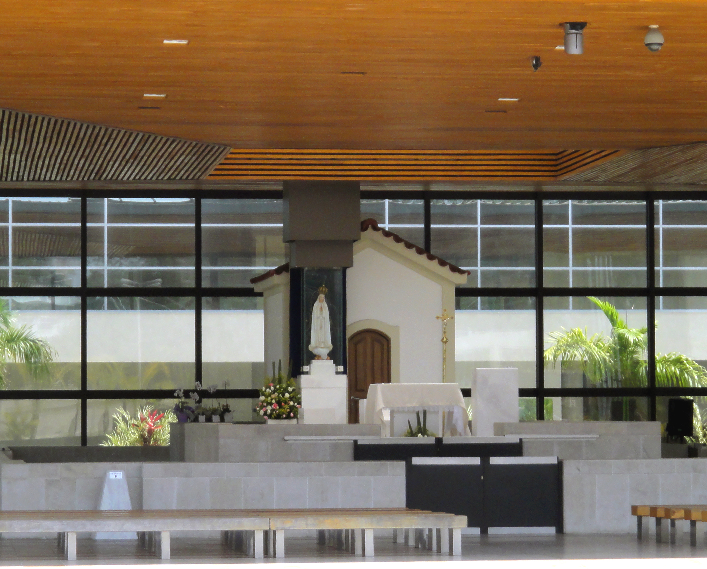 Our Lady of Fatima Sanctuary in Recreio dos Bandeirantes, Rio de Janeiro